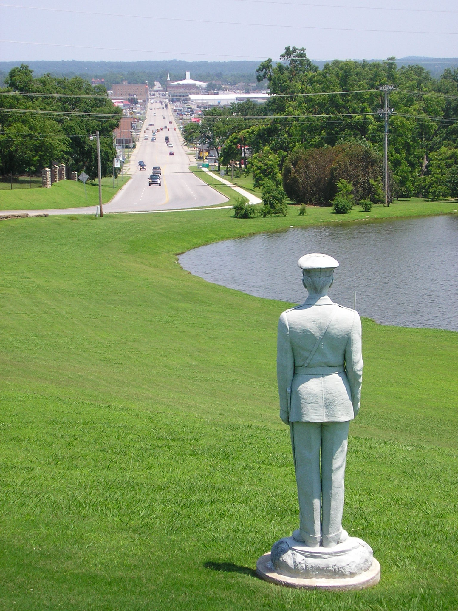 Rogers State University overlooking Claremore, Oklahoma, United states